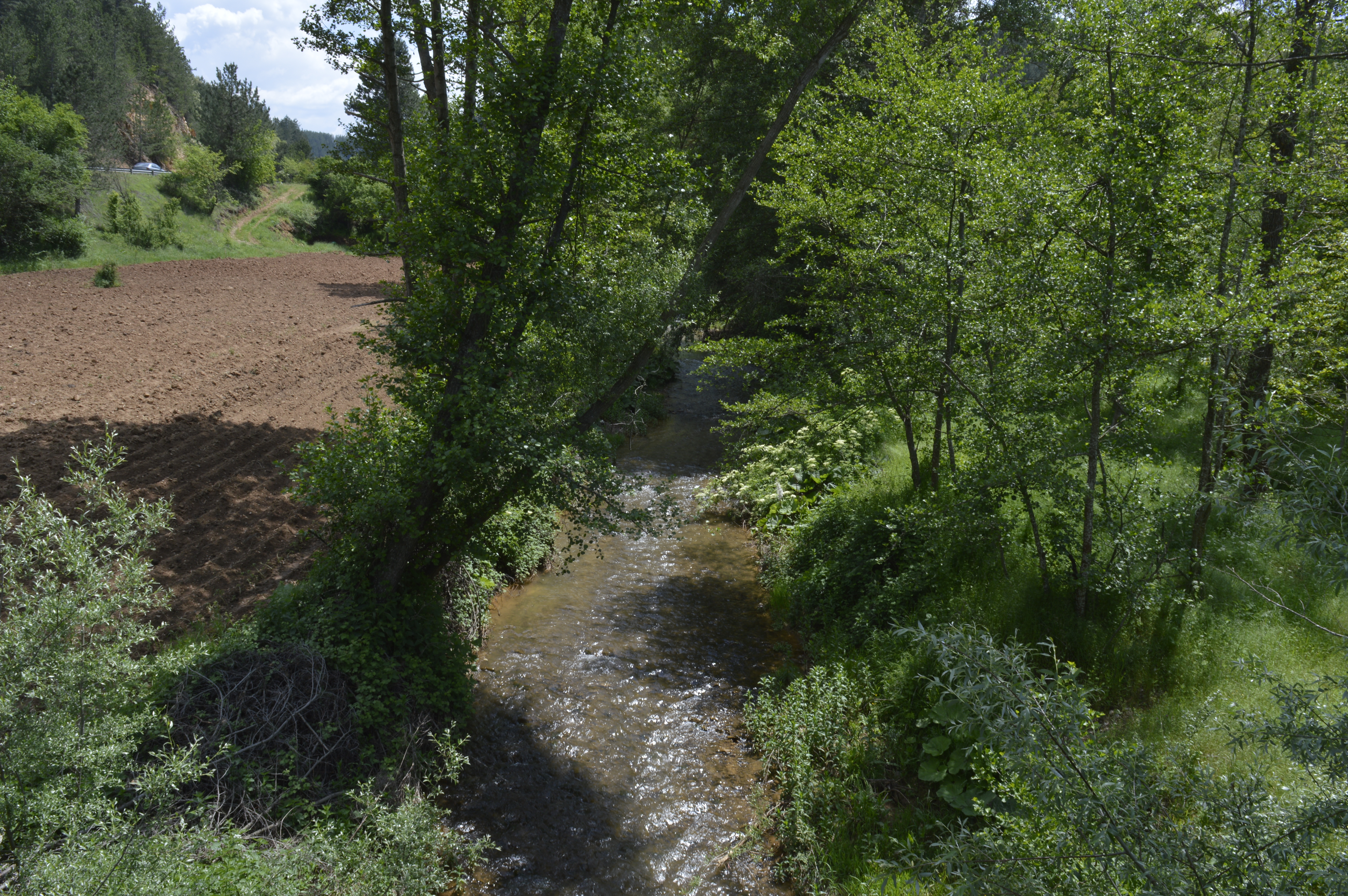 View of the river Želevica in the village Nov Istevnik